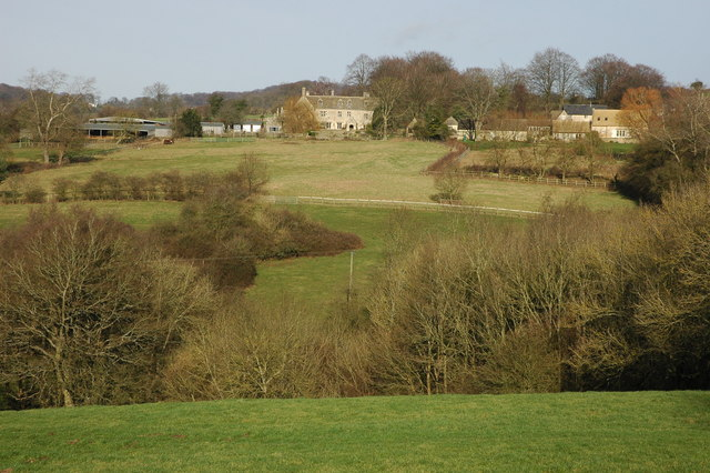 Painswick Lodge Painswick Lodge viewed from the Wysis Way to the south. For more information